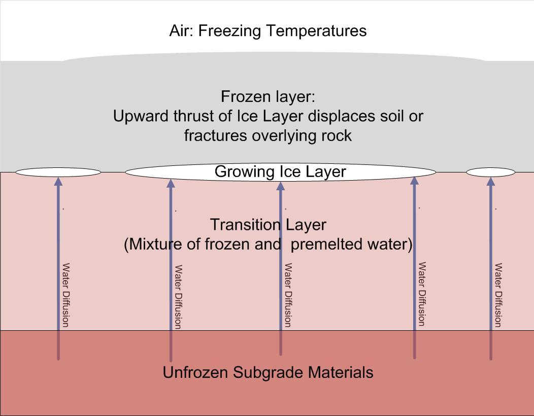 Uploaded for an article under development on ice lenses. Based on figures in the following texts. Dash2006 - Dash, G.,; A. W. Rempel, J. S. Wettlaufer (2006). "The physics of premelted ice and its geophysical consequences". Rev. Mod. Phys. 78 (695). American Physical Society. Retrieved on 30 November 2009. Murton2006 - Murton, Julian B.; Peterson, Rorik & Ozouf, Jean-Claude (17 November 2006). "Bedrock Fracture by Ice Segregation in Cold Regions". Science 314 (5802): 1127 - 1129. Retrieved on 30 November 2009. Rempel2007 - Rempel, A.W. (2007). "Formation of ice lenses and frost heave". Journal of Geophysical Research 112 (F02S21). American Geophysical Union. Retrieved on 30 November 2009. Rempel2008 – Rempel, A. W. (2008). "A theory for ice-till interactions and sediment entrainment beneath glaciers". Journal of Geophysical Research: F01013. American Geophysical Union.. Retrieved on 30 November 2009. Peterson2008 - Peterson, R. A.,; Krantz , W. B. (2008). "Differential frost heave model for patterned ground formation: Corroboration with observations along a North American arctic transect". Journal of Geophysical Research 113: G03S04. American Geophysical Union.. Retrieved on 30 November 2009., Walder1985 - Walder, Joseph; Hallet, Bernard (March 1985). "A theoretical model of the fracture of rock during freezing". Geological Society of America Bulletin 96 (3): 336-346. Geological Society of America.. 10.1130/0016-7606(1985)96 2.0.CO;2. Retrieved on 30 November 2009.